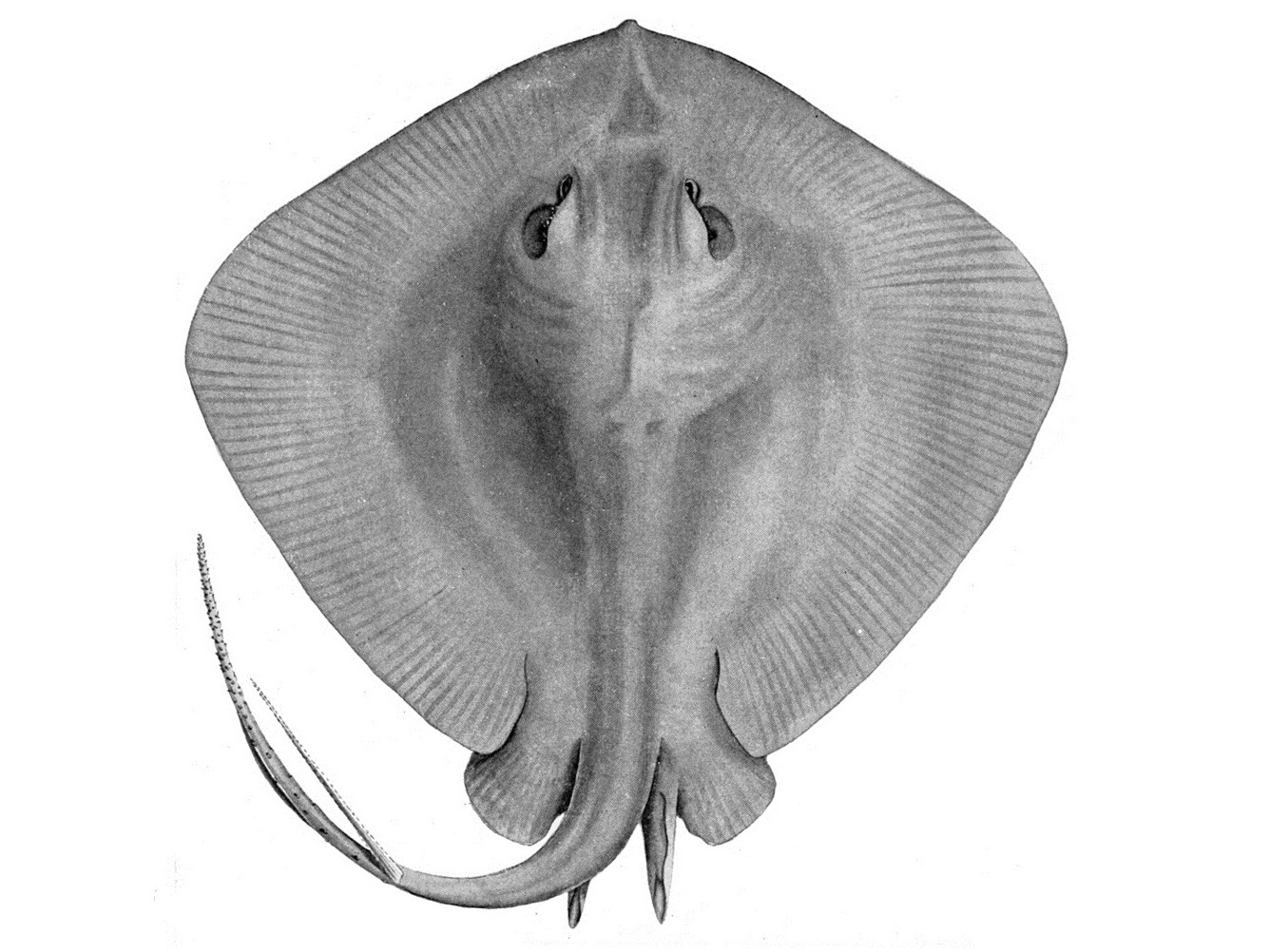 Short-tail stingray (Dasyatis brevicaudata) version with different dimensions for infobox usage